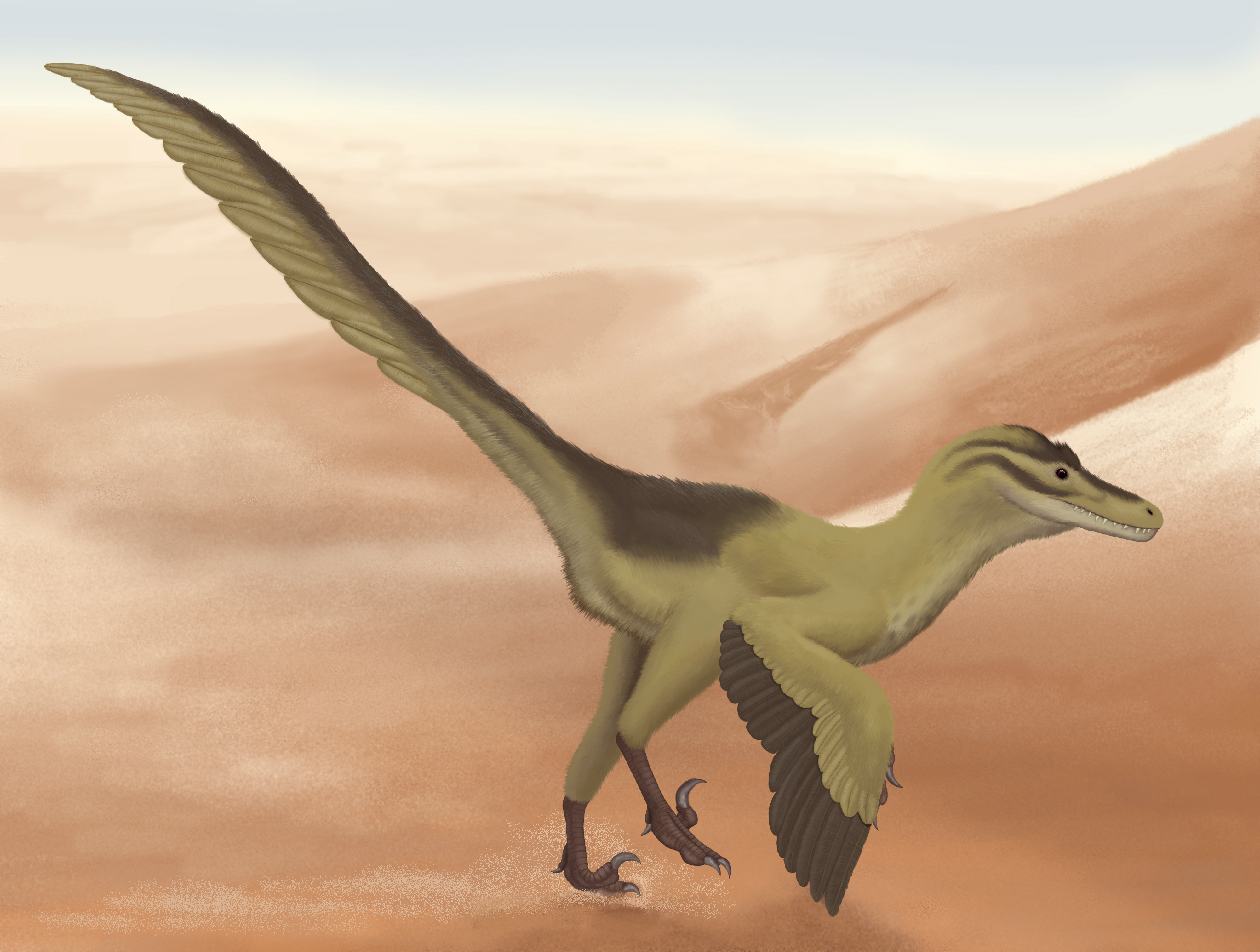 Life restoration of Linheraptor exquisitus. Based on figure 1 of "A new dromaeosaurid (Dinosauria: Theropoda) from the Upper Cretaceous Wulansuhai Formation of Inner Mongolia, China" by Xing Xu, Jonah N. Choiniere, Michael Pittman, Qingwei Tan, Dong Xiao, Zhiquan Li, Lin Tan, James M. Clark, Mark A. Norrell, David W. E. Hone, and Cornwin Sullivan ZooTaxa 2403: 1-9.